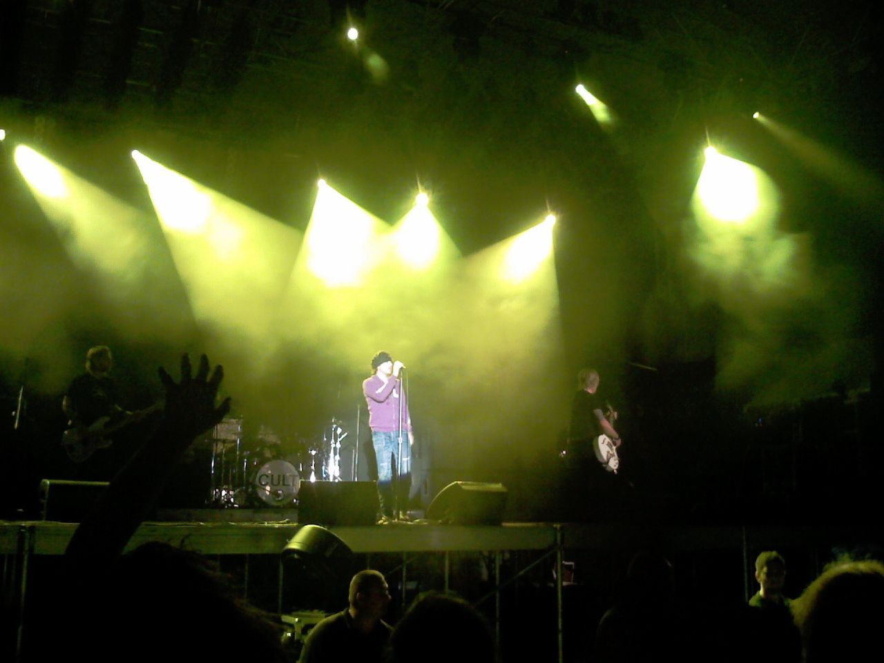 The Cult playing at Drava Rock Festival in 2007.